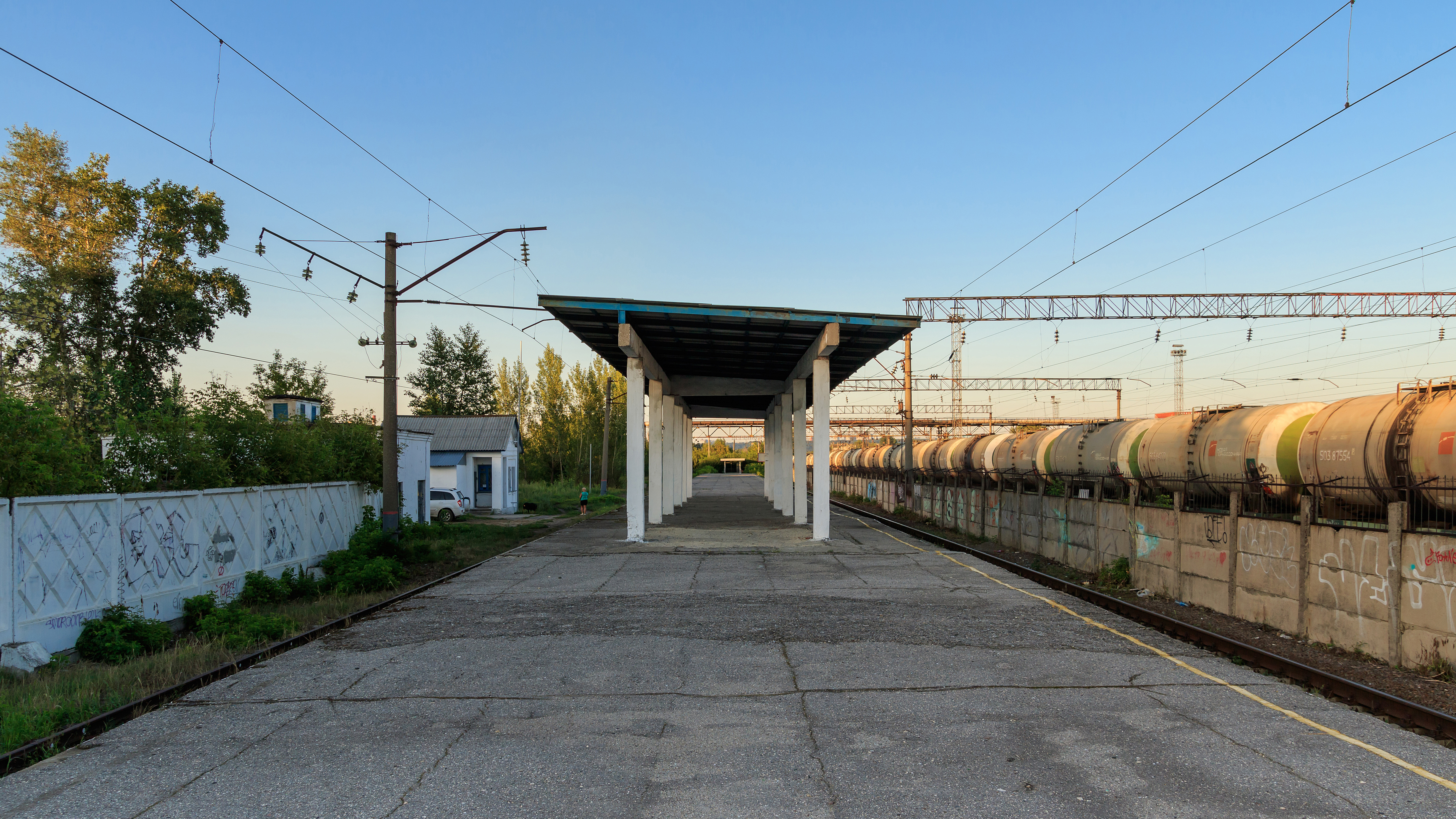 Kustovaya railway station platform. Nizhny Novgorod, Russia.